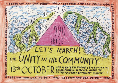 The first gay liberation march in Africa led by the lesbian activist Beverly Palesa Ditsie, the Theologian Dr. Hendrik Pretorius, Justice Edwin Cameron and the gay activist Simon Nkoli on October 13, 1990 in Braamfontein, Johannesburg, South Africa.